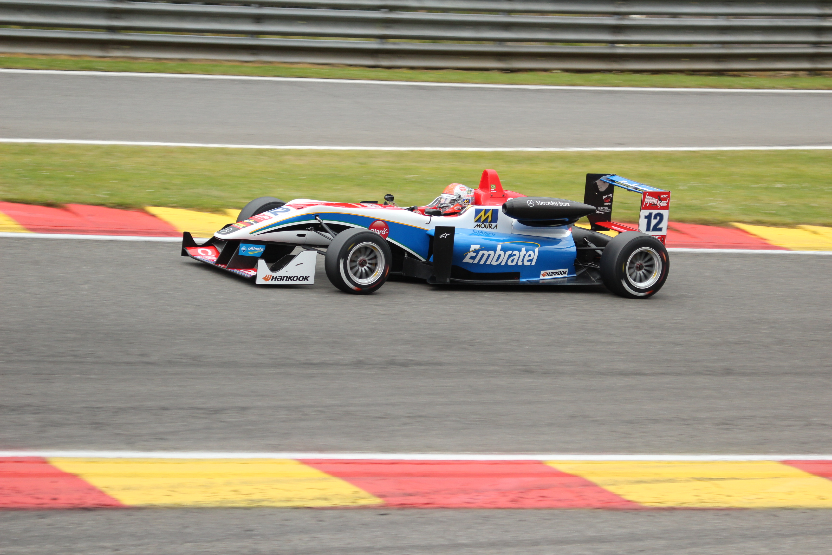 Pietro Fittipaldi at Spa in 2015, European Formula 3 Championship